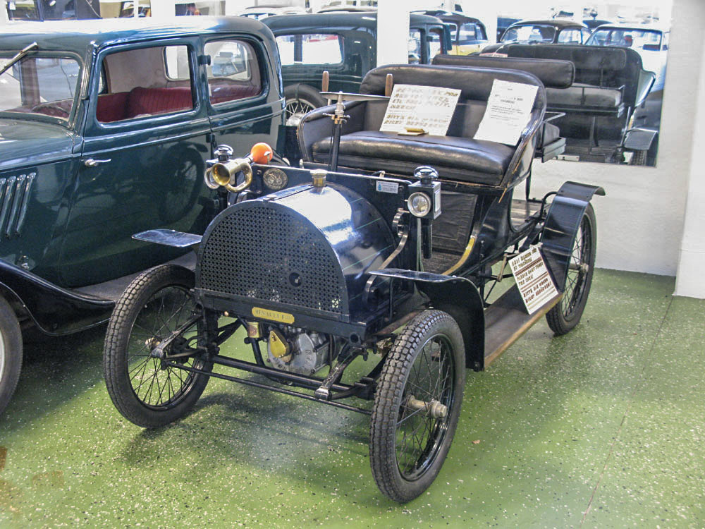 1899 Renault Type A.Location: Laganland Bilmuseum, Sweden